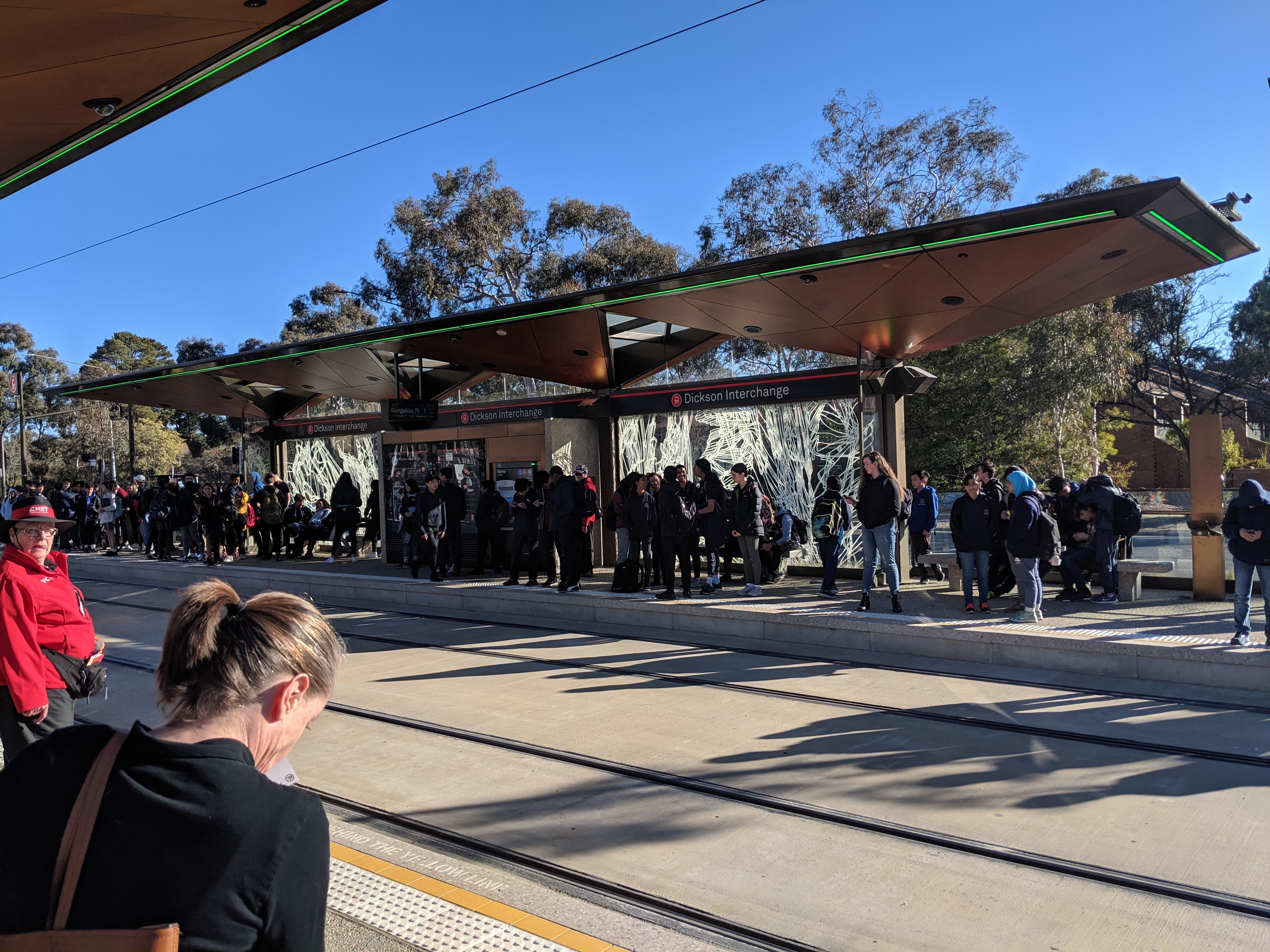 Dickson Interchange stop, Canberra light rail, August 2019. Lyneham High School students leaving school